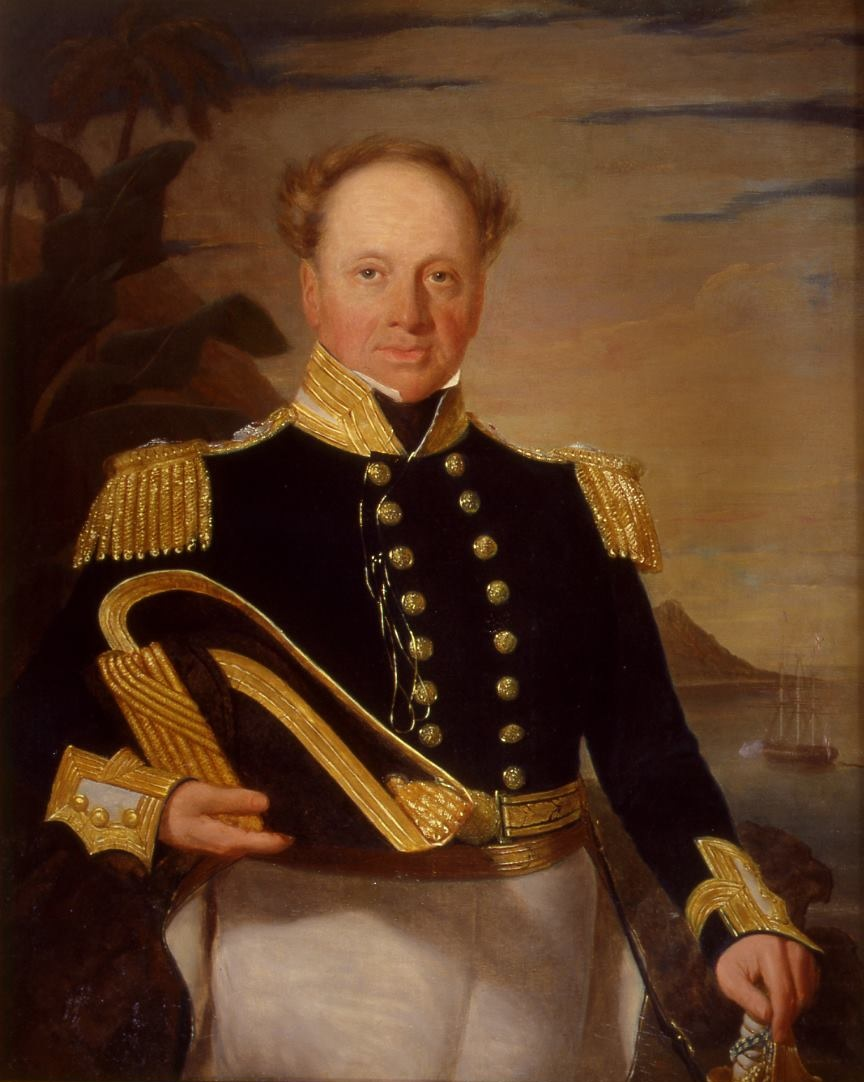 Richard Darton Thomas (1777–1857) joined the British Royal Navy in 1790. On January 10, 1837 he was appointed Rear Admiral, and served as Commander-in-chief of the Pacific Fleet from May 5, 1841 to December 1844. He eventually rose to the rank Admiral of the White May 19, 1857.